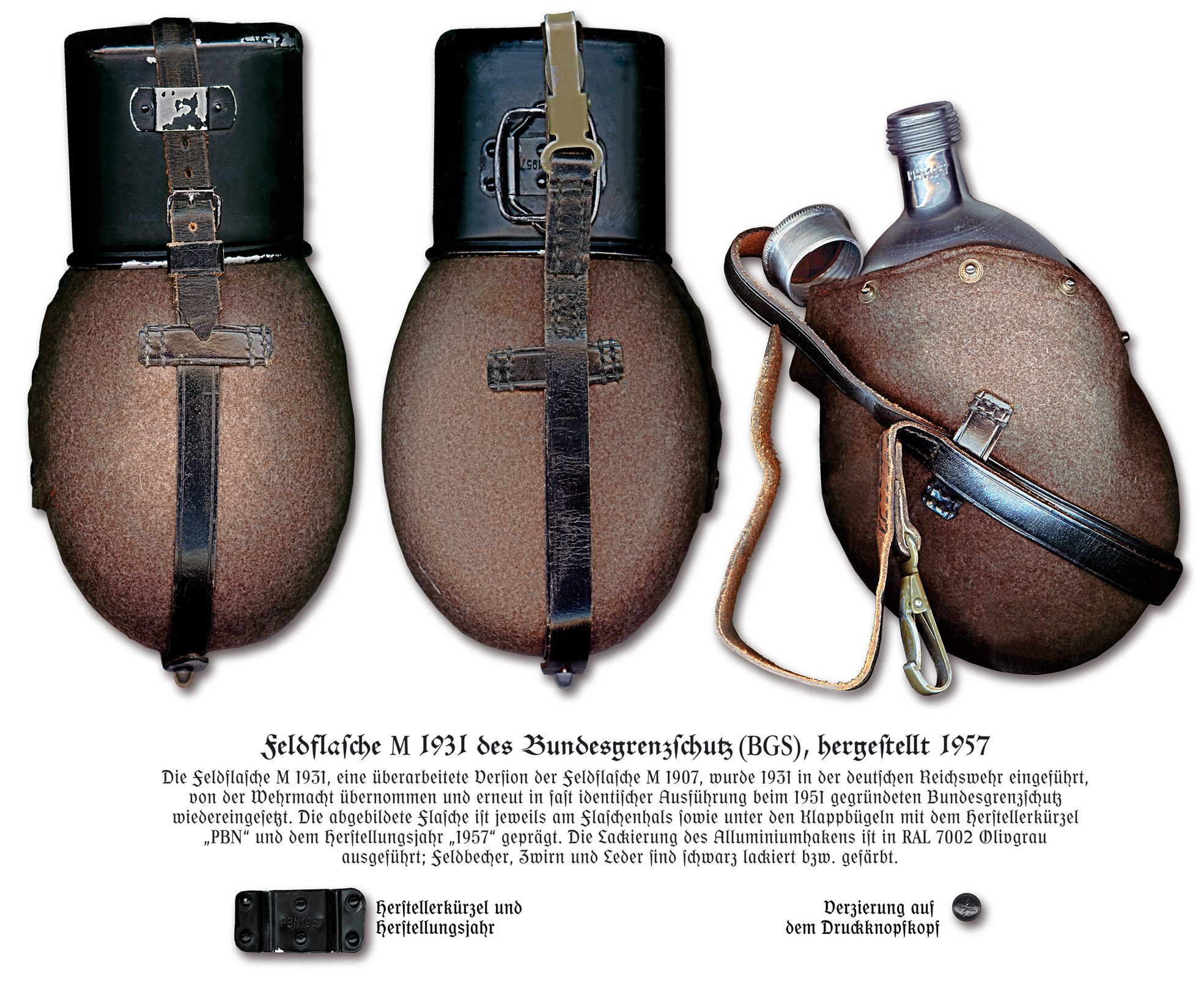 Western German Bundesgrenzschutz (BGS) canteen M31 made in 1957